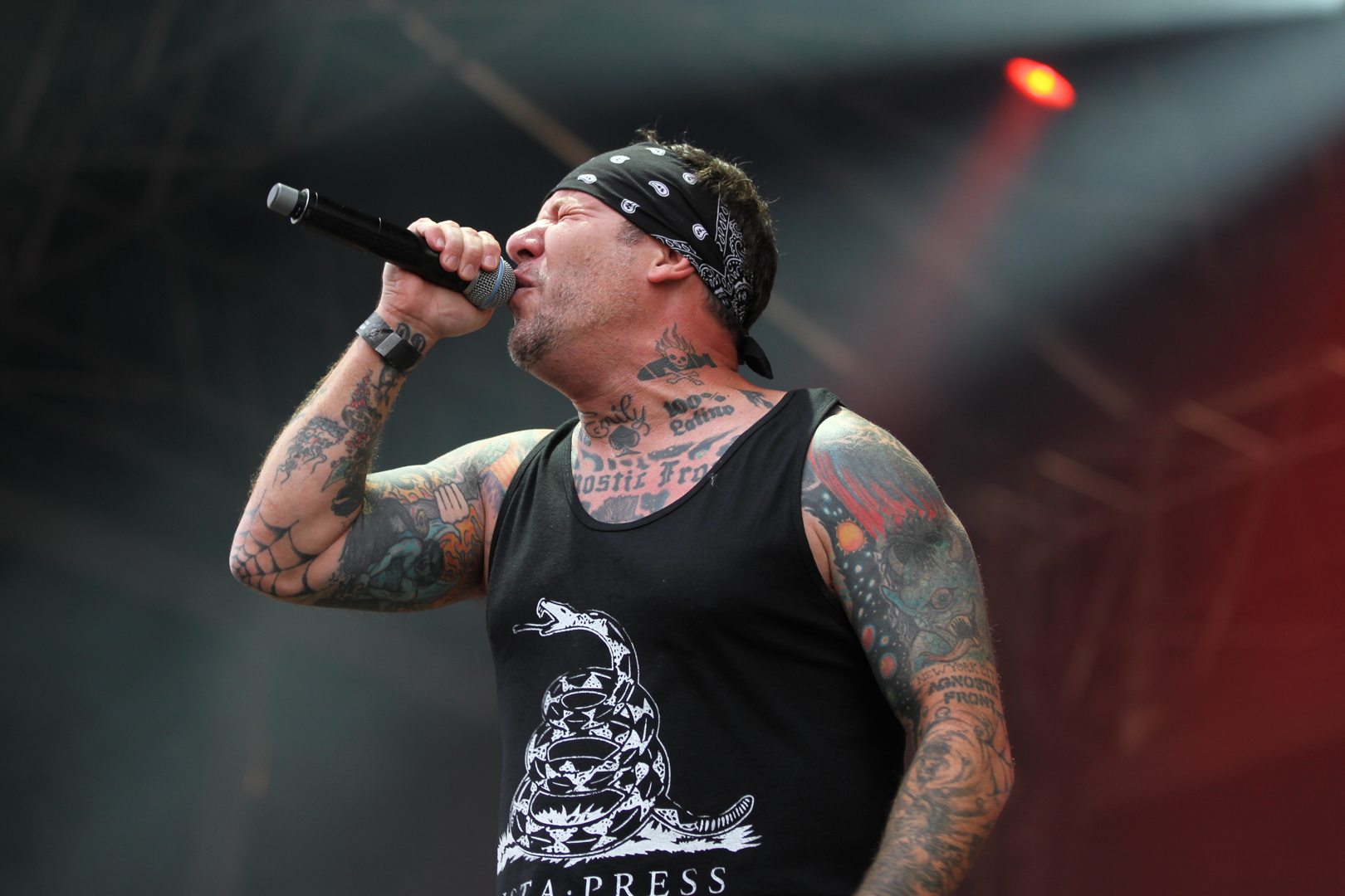 Festivalsommer This photo was created with the support of donations to Wikimedia Deutschland in the context of the CPB project "Festival Summer".